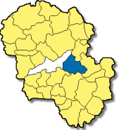 Locator maps of municipalities in Bavaria - District Landshut